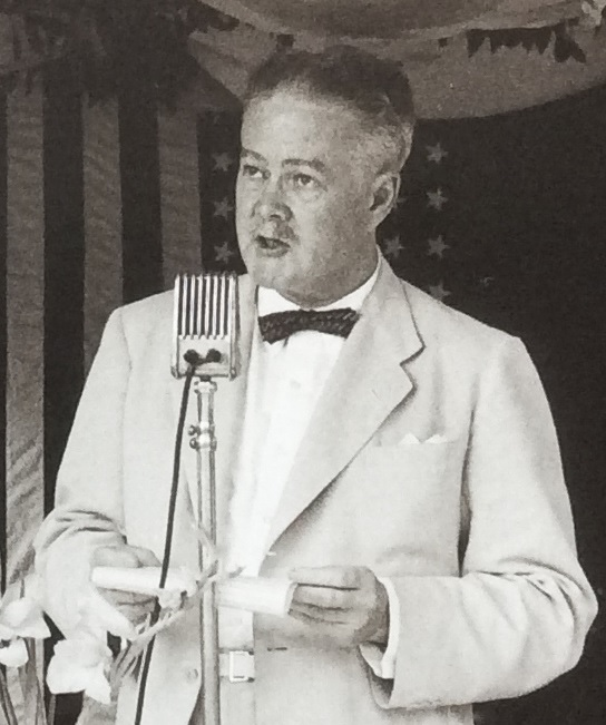 Karl Rankin, Ambassador of the United States to the Republic of China (ROC)